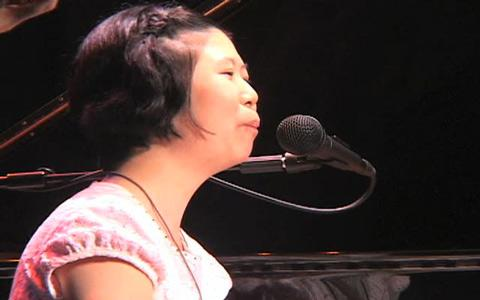 Concert pianist, Lee Hee-ah, was born in South Korea with severe physical impairments, but her disabilities have not stopped her from achieving her goals